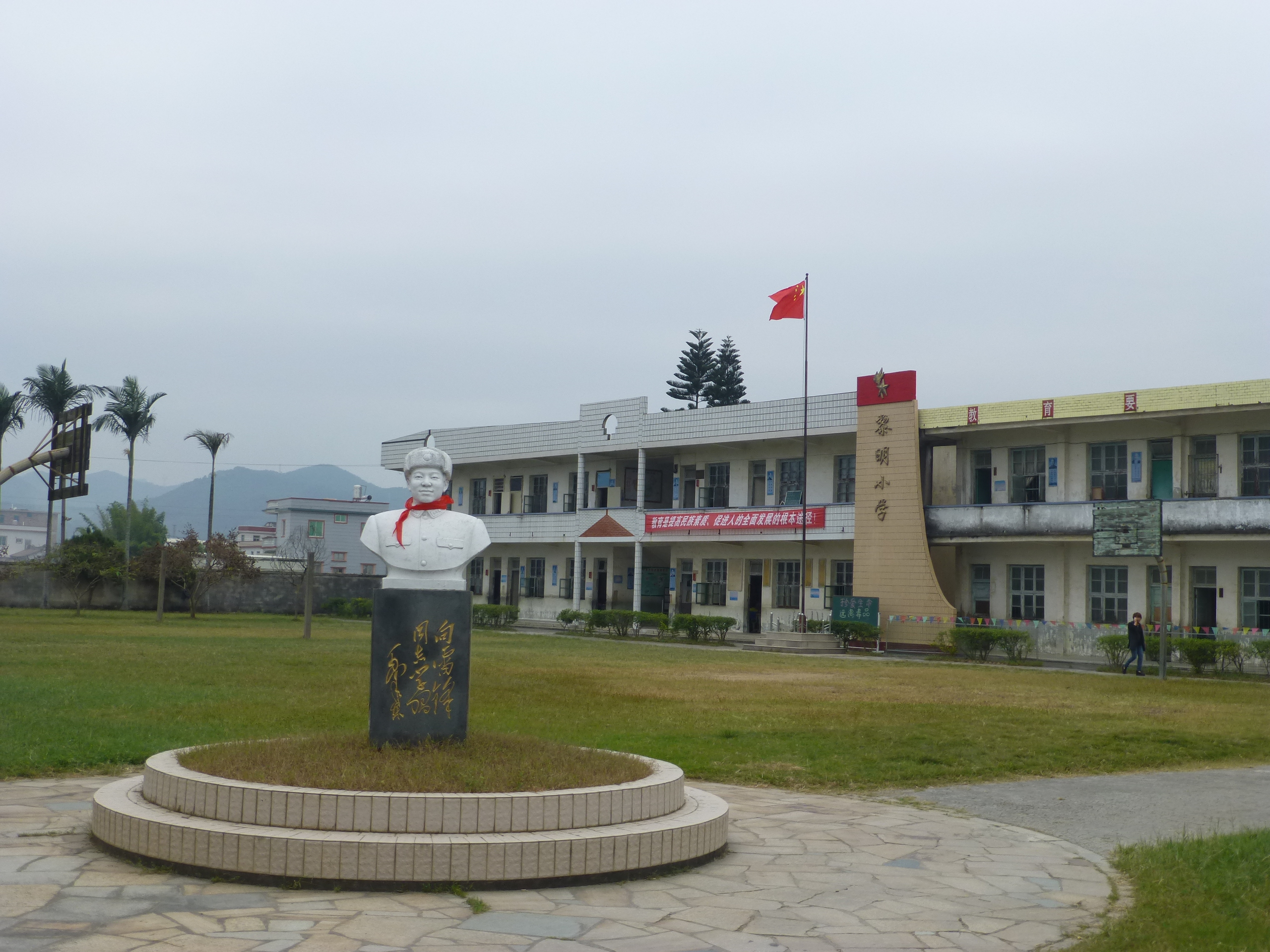 Around Haicheng Town, Longhai City